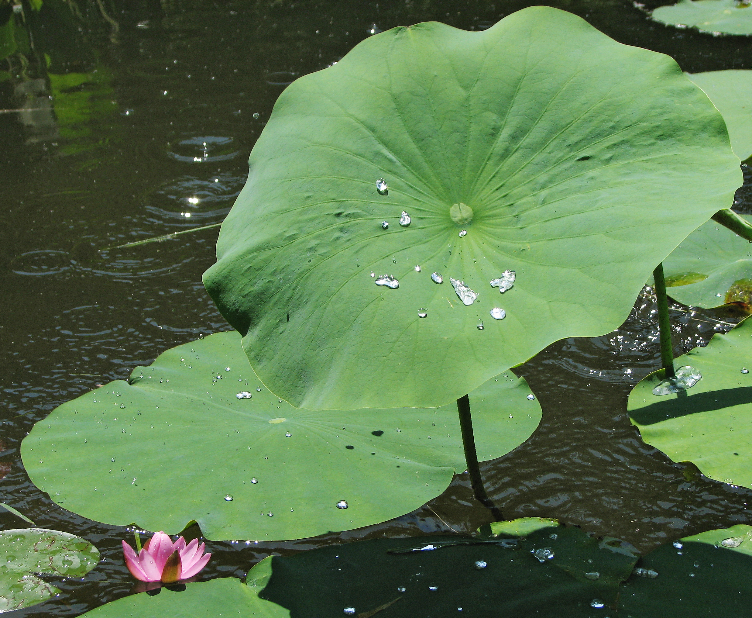 Picture of water drops running down the leaf of a Lotusen (Nelumbo en 'Mrs. Perry D. Slocum') a cross between Nelumbo lutea and Nelumbo nucifera 'Rosea Plena'. Due to the water-repellent properties of the leaf, the water beads and runs off of the leaf, leaving it dry. Photo taken in the Pond at the Chanticleer Garden in Wayne, Pennsylvania, where it was identified.